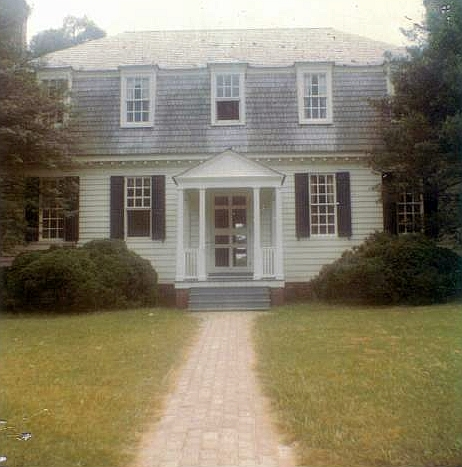 I took photo myself.